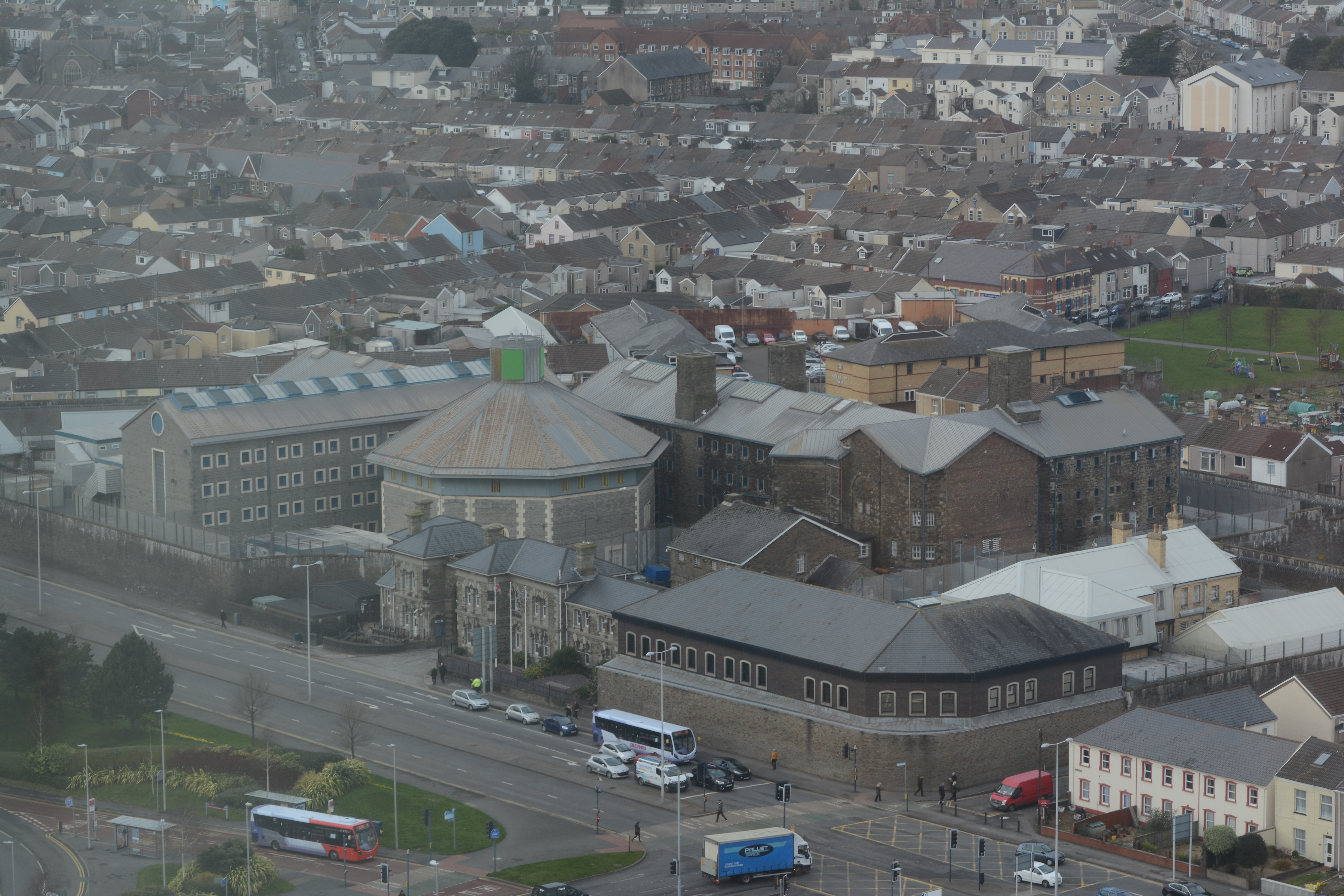 Swansea Prison, as seen from the Grape & Olive coffee bar/restaurant at the to of the Meridian Tower in the Swansea Marina. A building that very few of us ever want to visit and certainly not stay in ;-) 49 A Civic/Public/Government Building for 117 pictures in 2017